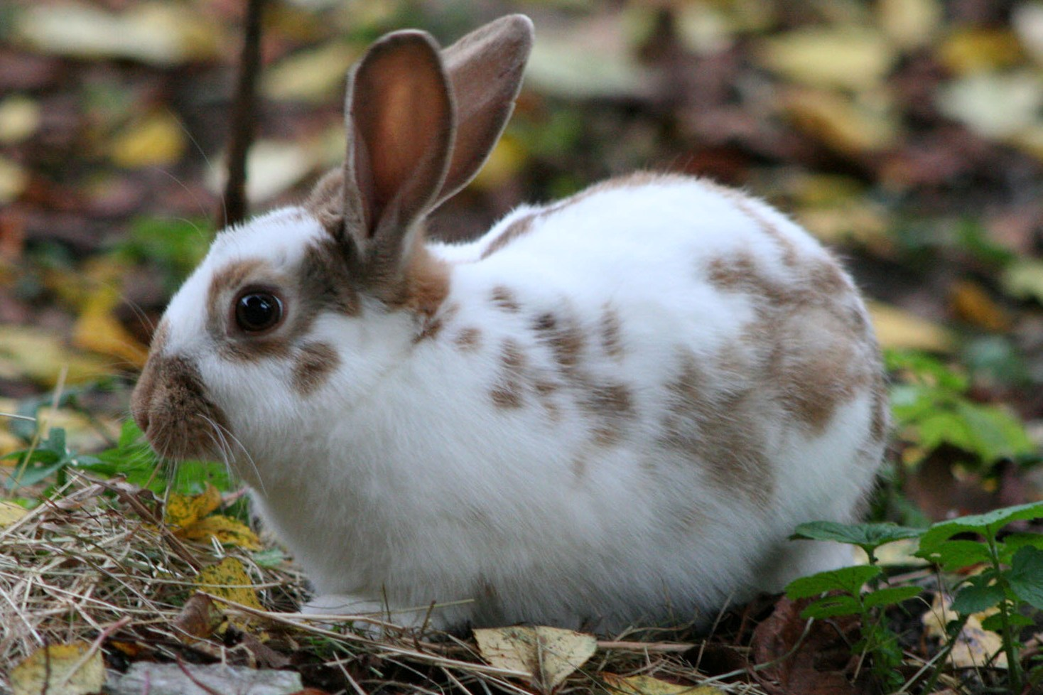 A cropped version of Image:EnglishSpotRabbitChocolate1.jpg.